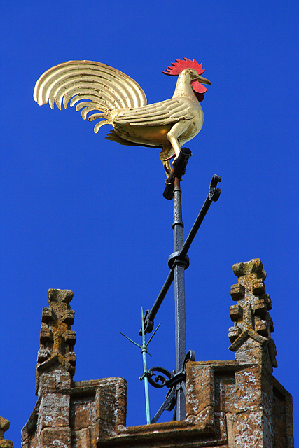 Weathercock on the tower of St George's parish church, Hinton Saint George, Somerset